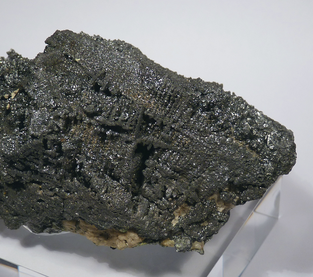 Rammelsbergite Locality: Měděnec (Kupferberg), Klášterec nad Ohří, Krušné Hory Mts (Erzgebirge), Ústí Region, Bohemia (Böhmen; Boehmen), Czech Republic Rammelsbergite pseudomorph after native silver and sprinkled with small safflorite and skutterudite crystals. Field of view 8 cm.